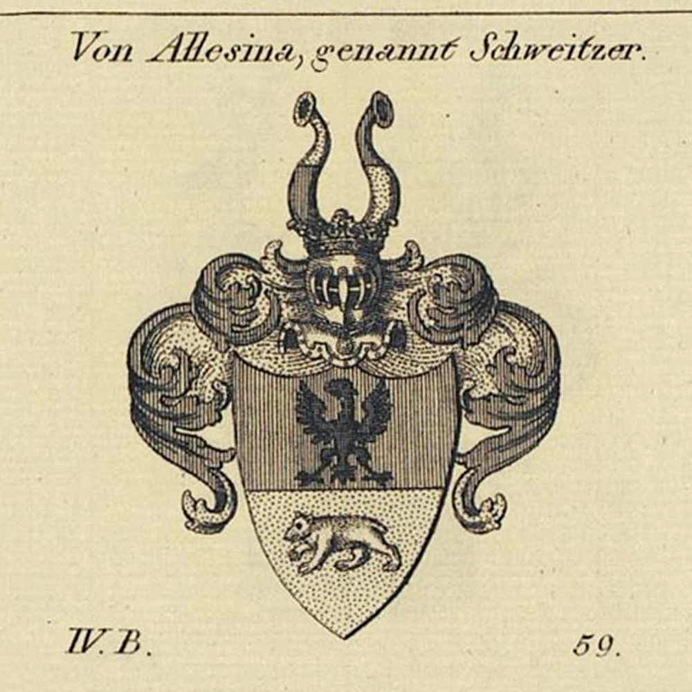 Coat of arms of Allesina genannt (called) Schweitzer